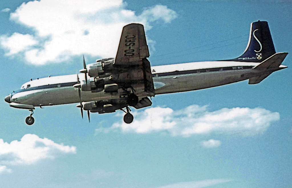 Douglas DC-7C OO-SFC of Sabena landing at Manchester Airport, England, in 1962